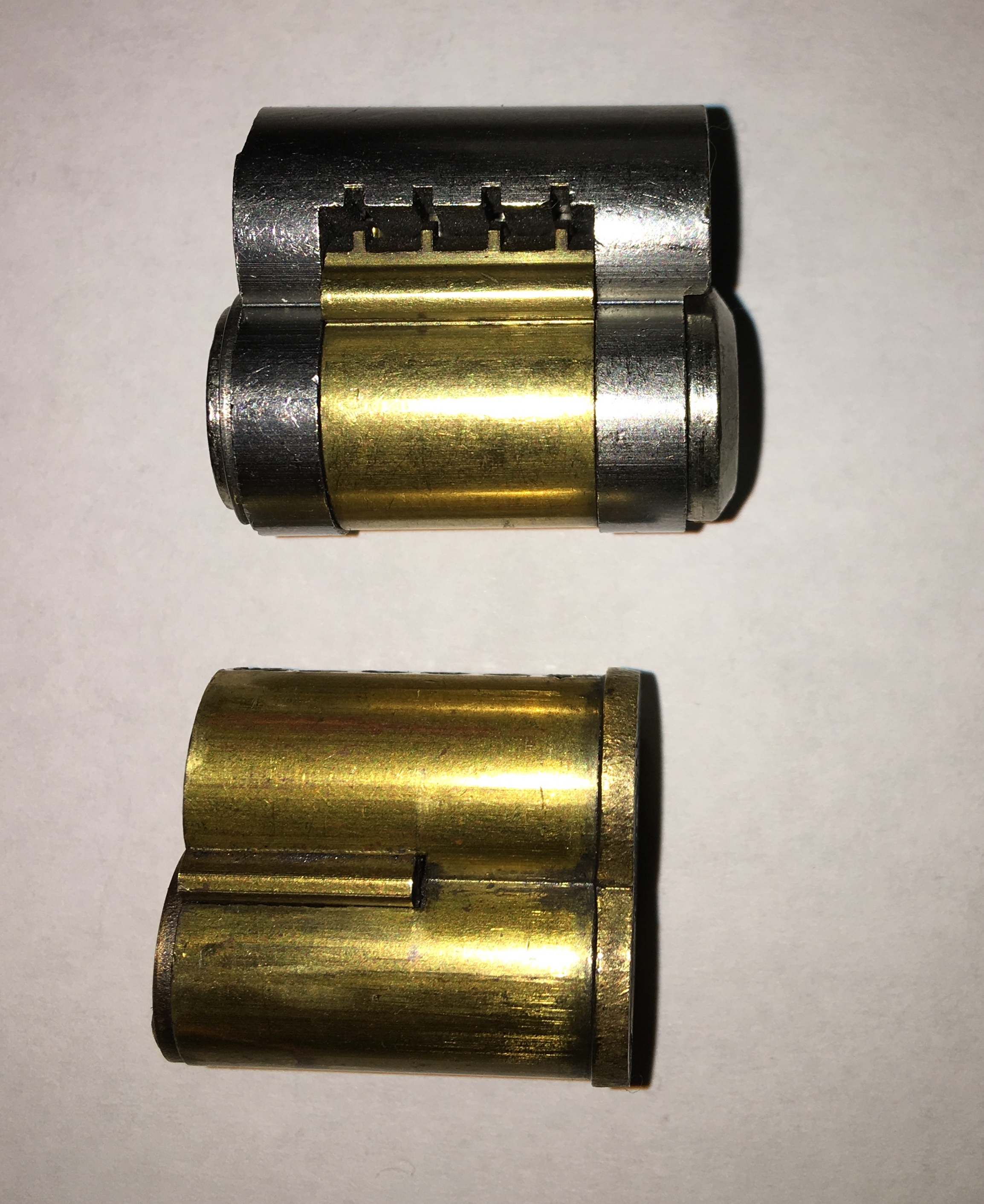 top: Corbin Russwin large format interchangeable core bottom: best small format interchangeable core